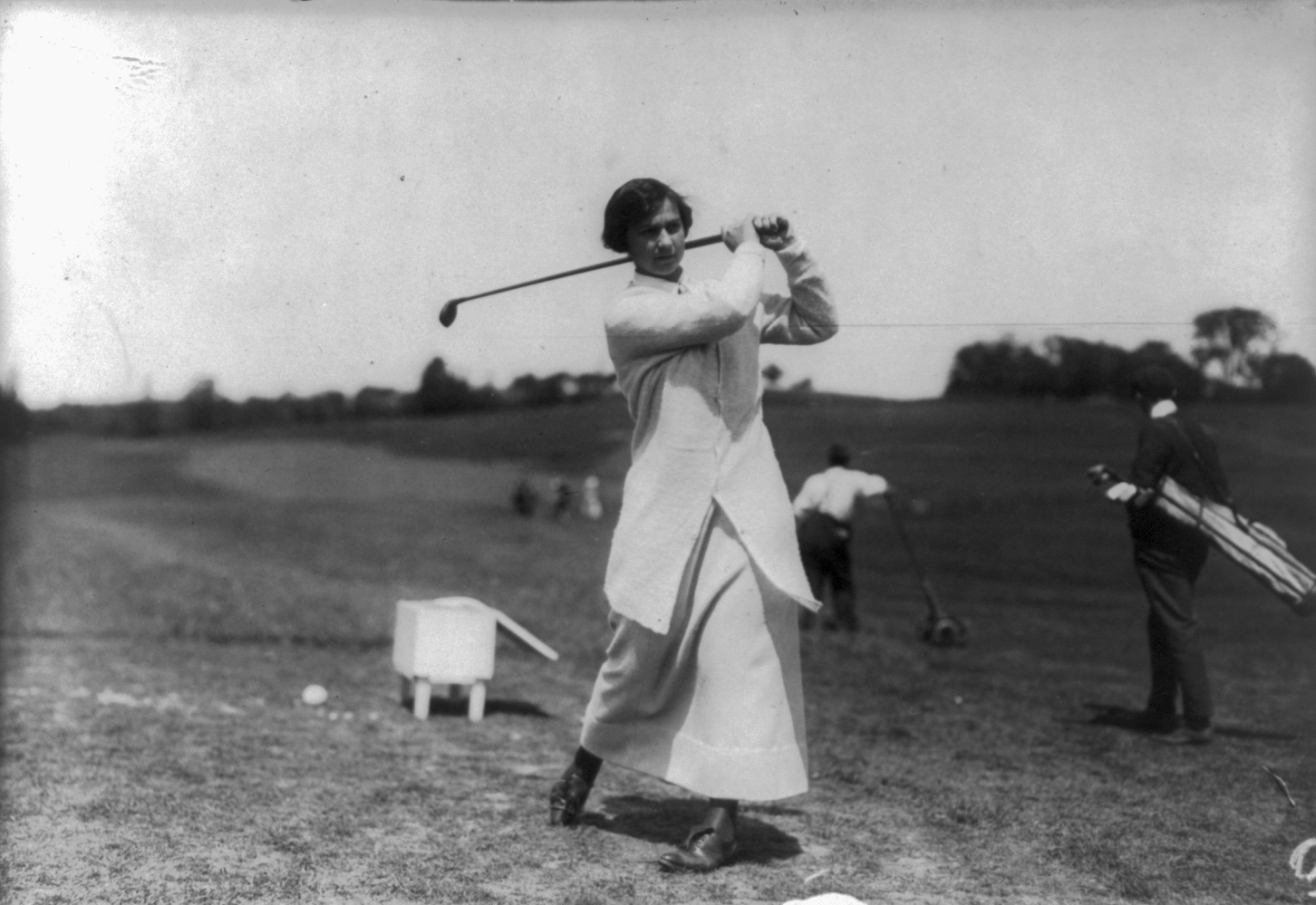 American golfer and golf course designer Marion Hollins.